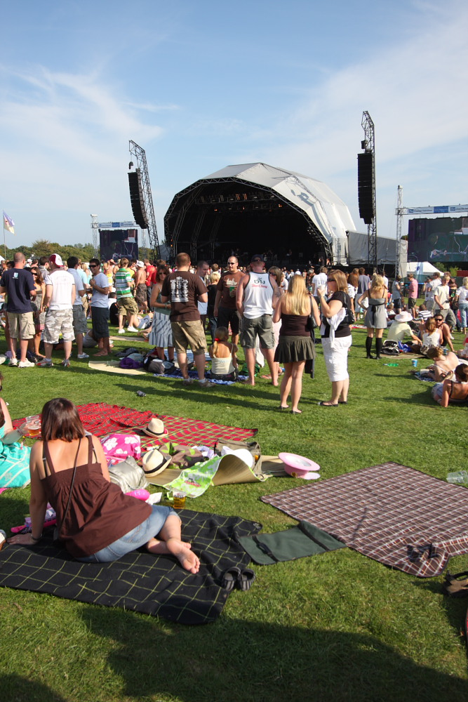 Jersey Live 2008, held at the Royal Showground, Trinity.